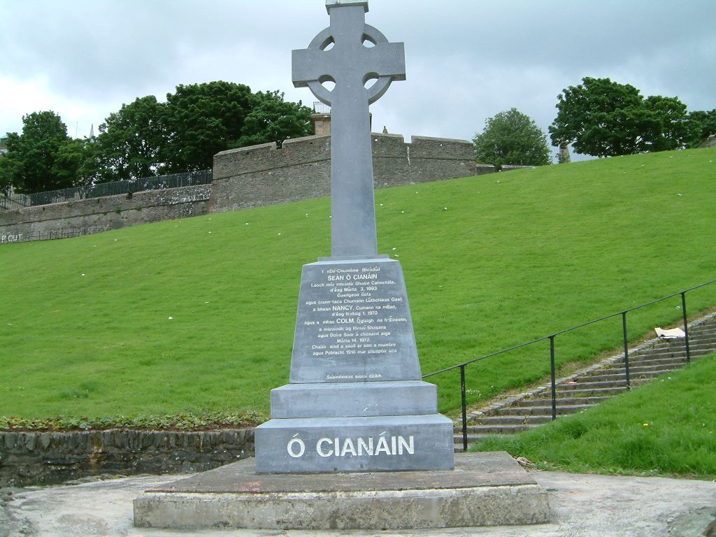 Photo taken by myself in the Bogside, Derry, in 2005. UP Óghlaigh na h-Éireann